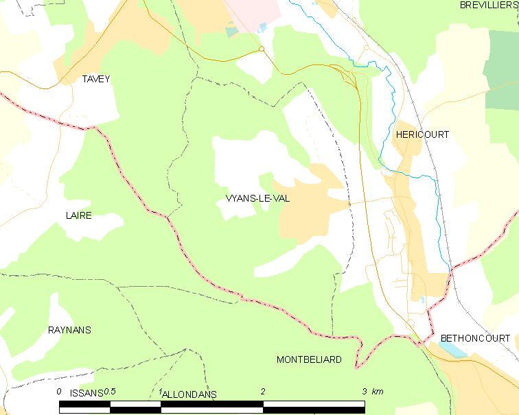 Map of French municipality